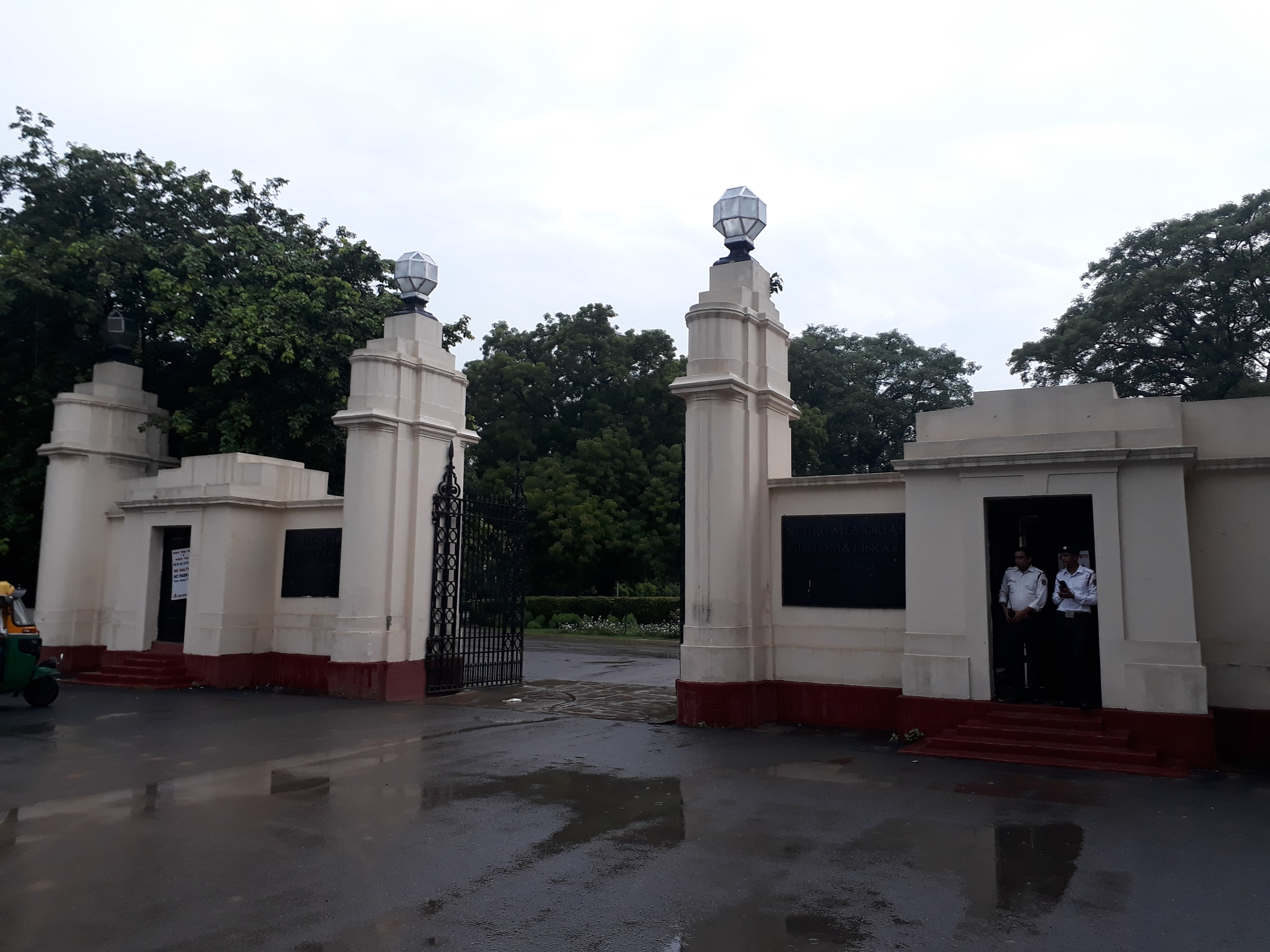 Jawaharlal Nehru museum and study sentre in Tin Murti Complex, New Delhi.